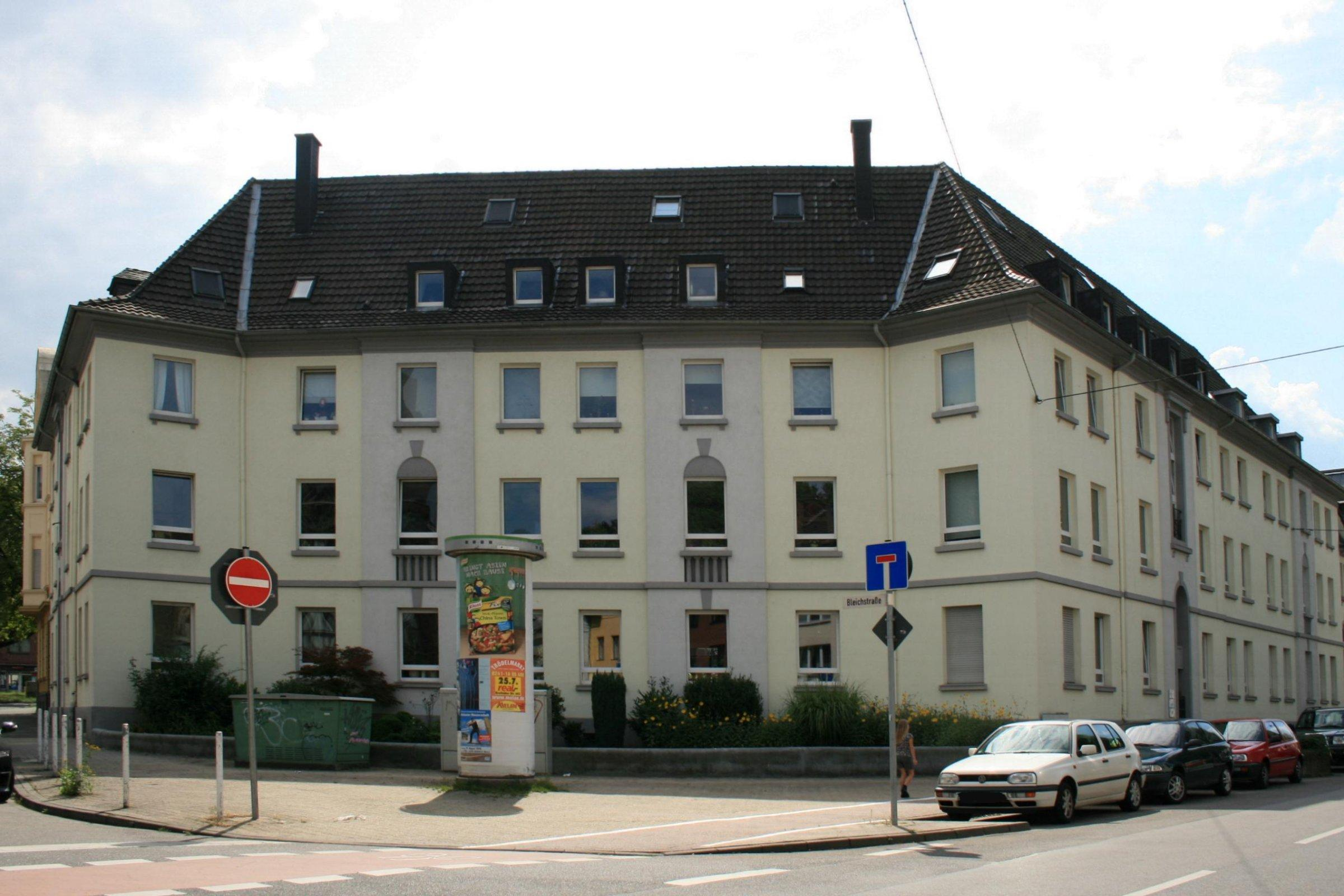 Cultural heritage monument No. L 044 in Mönchengladbach